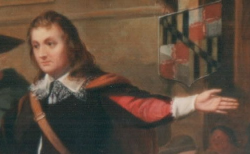 From the Senate Lounge, of the Maryland State House, in Annapolis. From a portion of the larger painting, from 1853, by artist, Tompkins Harrison Matteson, showing Stone welcoming Puritan settlers to Maryland.